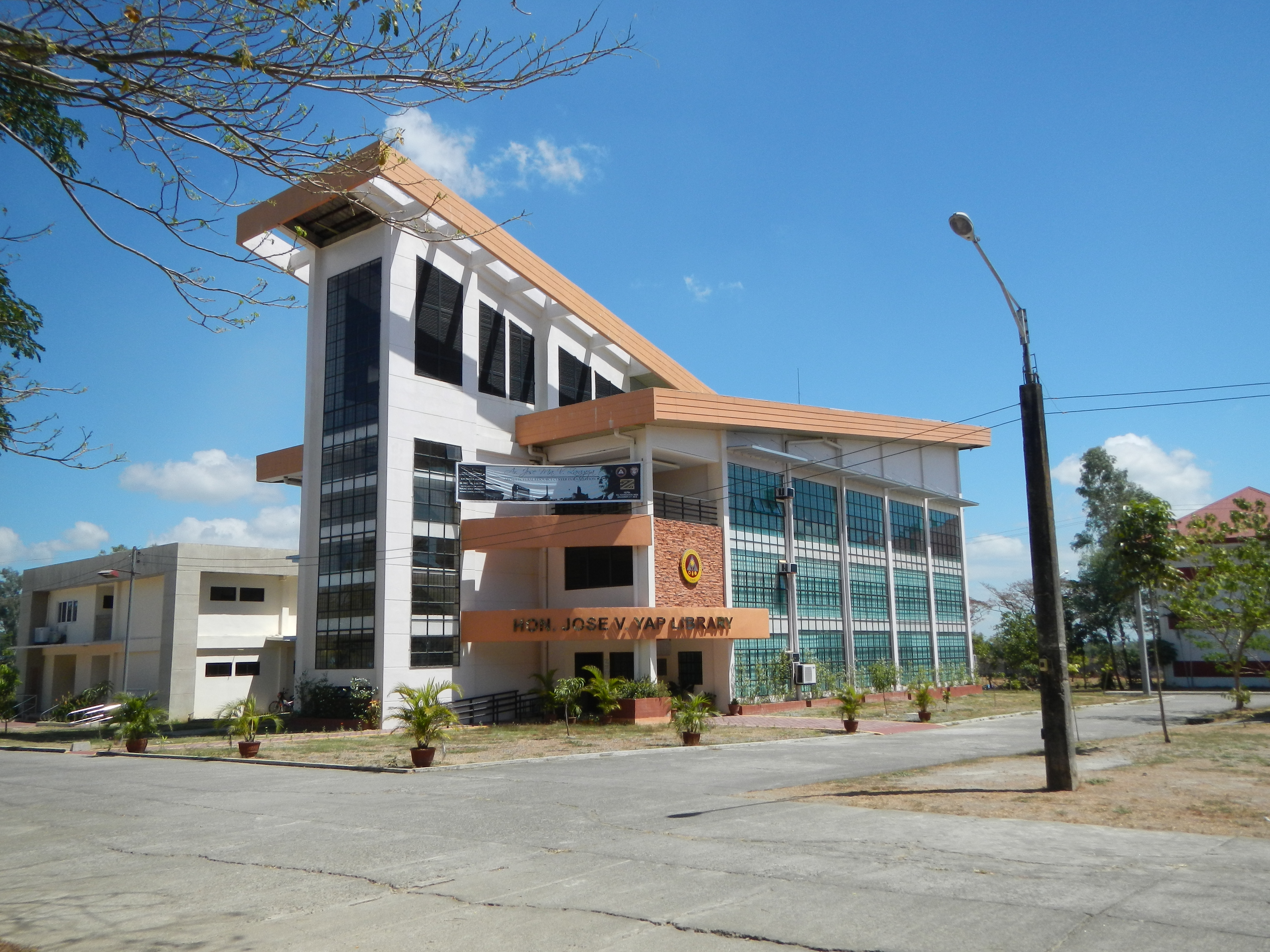 Tarlac State University – Laboratory School, Lucinda Campus, San Sebastian Tarlac City.